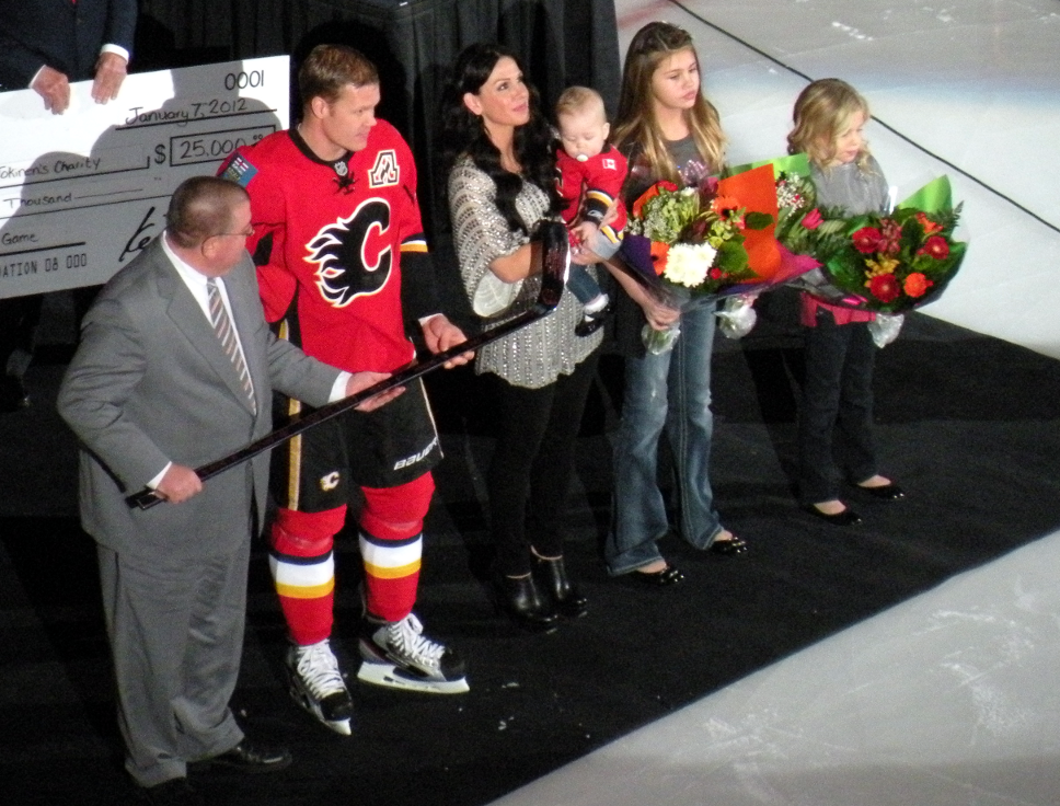 Calgary Flames forward Olli Jokinen (second from left) is presented with a silver stick in recognition of playing his 1,000th NHL game as his wife and three daughters look on.